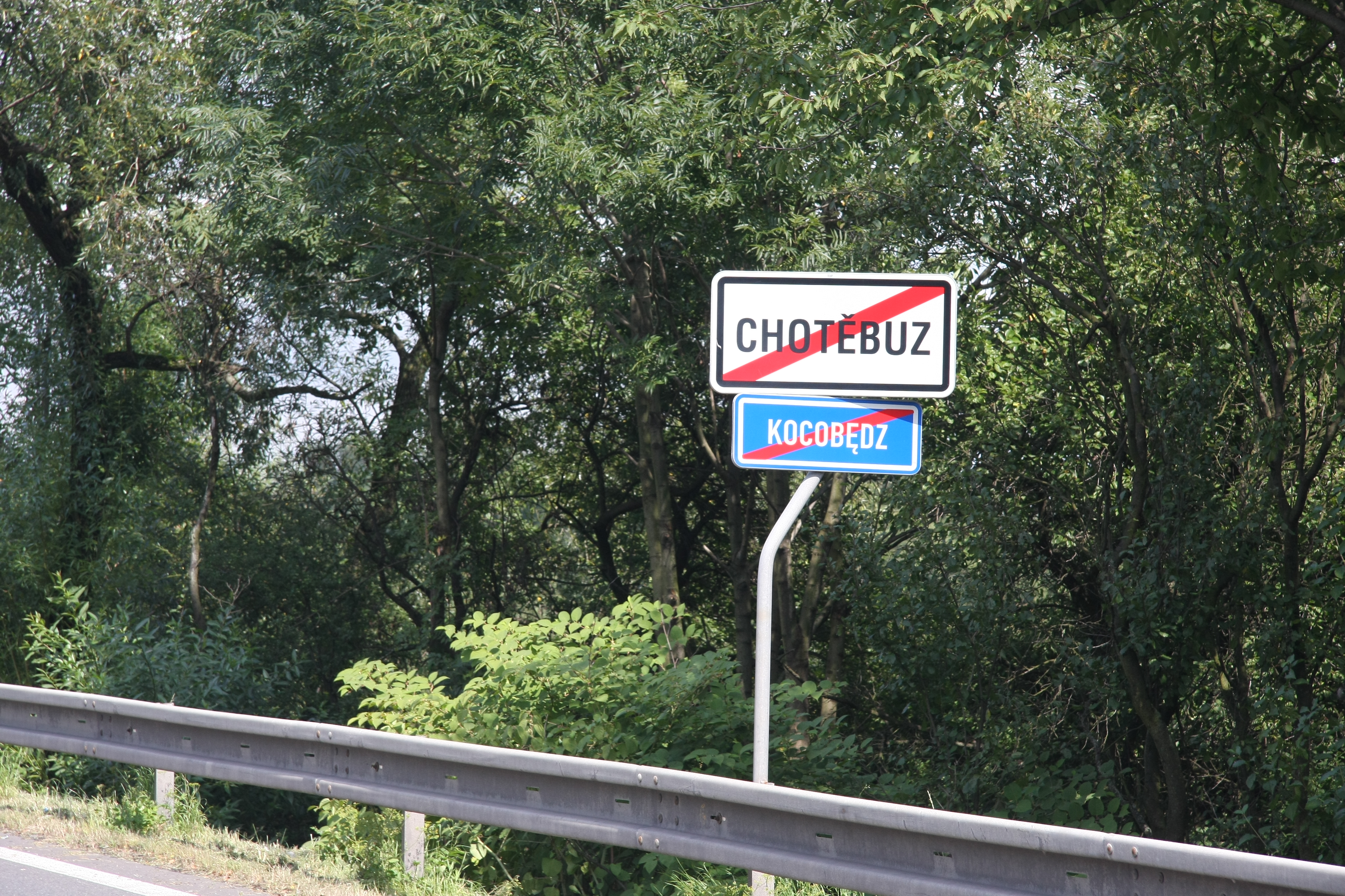 Chech and Polish names in Chotěbuz/Kocobędz